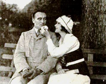 Still from the American film A Temperamental Wife (1919) with Wyndham Standing and Constance Talmadge, on page 1350 of the August 16, 1919 Motion Picture News. Picture caption: This is the way she starts to tame her woman-hating senator she had set her cap for. "That's not the flowers that smell so sweet - it's me," she says, and proves it.